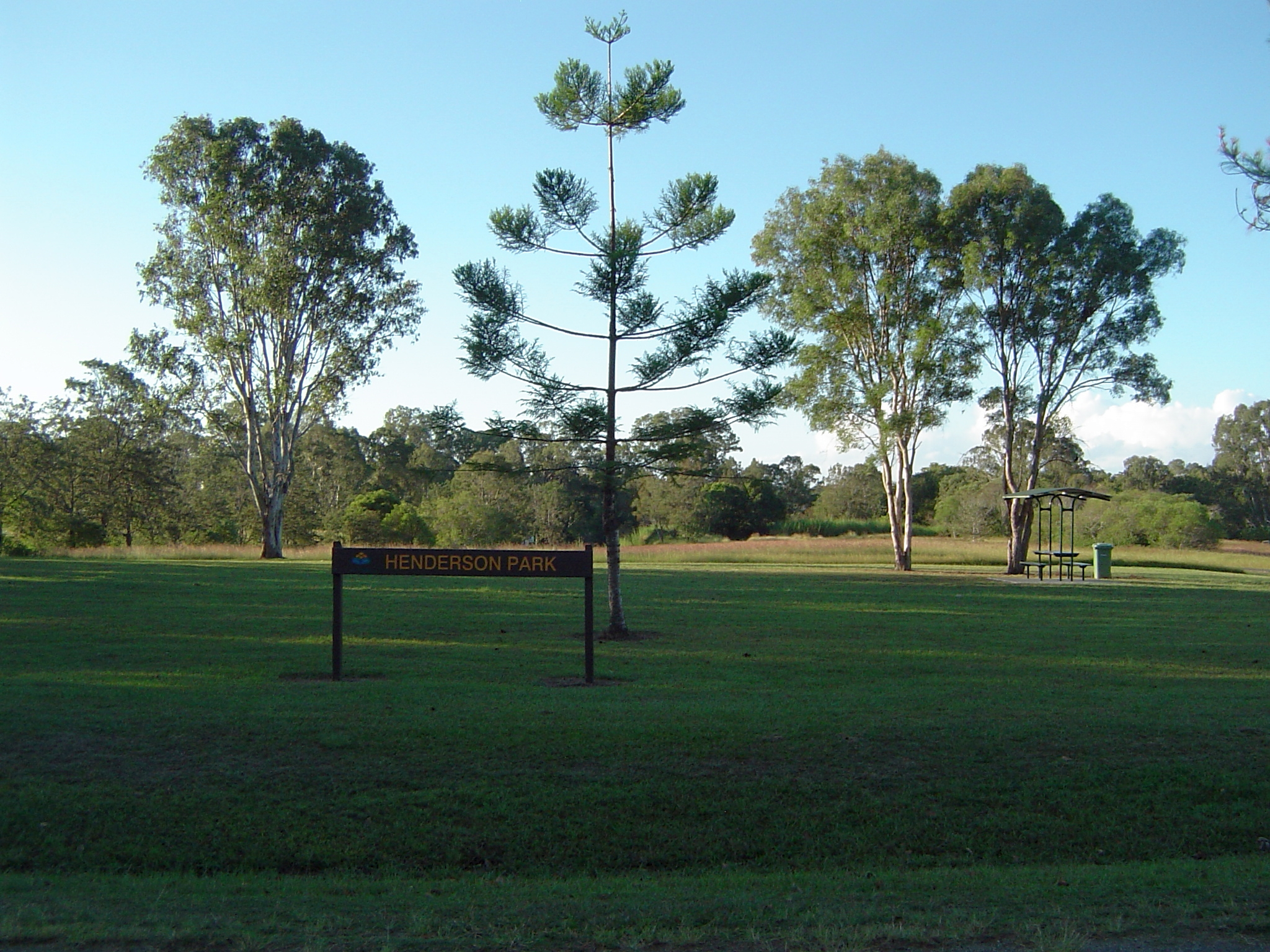 Photo of Henderson Park at Logans Reserve, Logan City, Queensland, Australia.